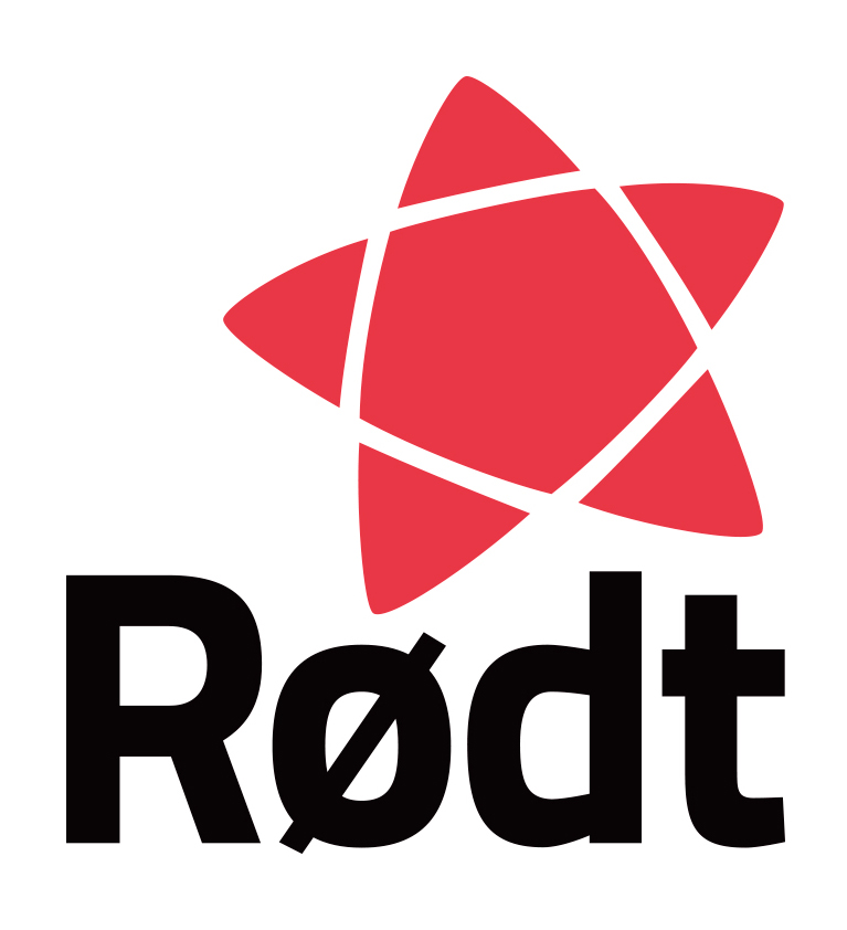 Current (2016) logo of the Norwegian Red Party (Rødt).